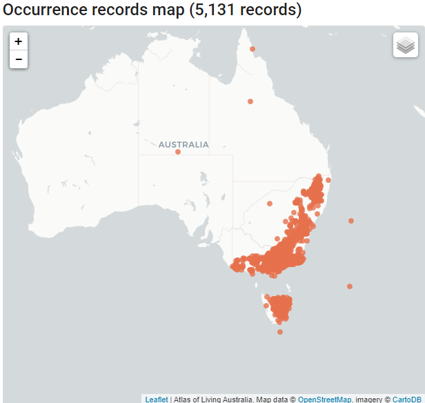 The distribution of Davesia latifola in Australia and the surrounding offshore Island. Davesia latifolia is mostly distributed throughout the Eastern States of Australia